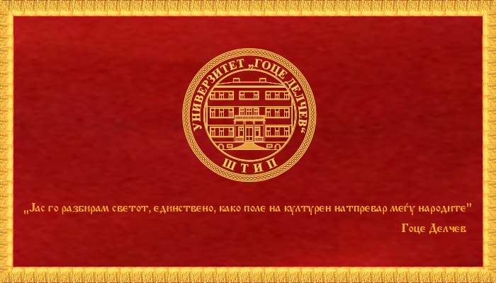 Goce Delchev University's Flag, one of the official symbols of the university